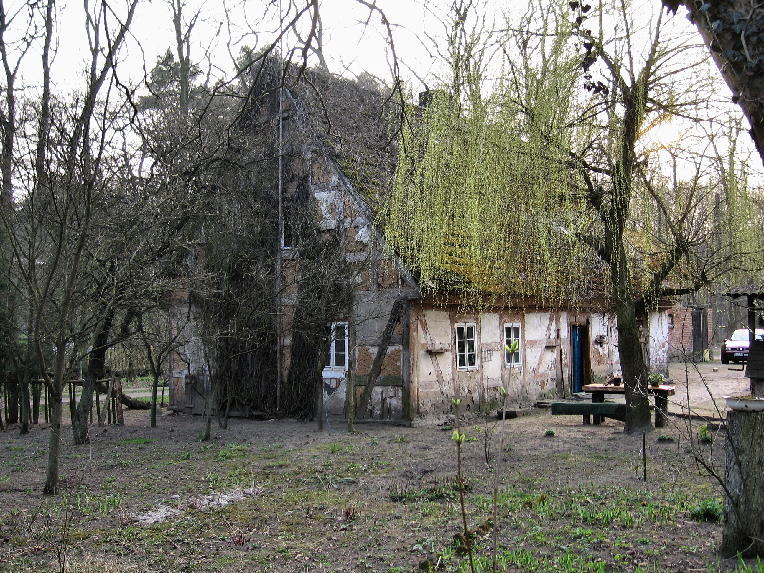 timber-framed house in Nowy Świat near Sulechów, Poland